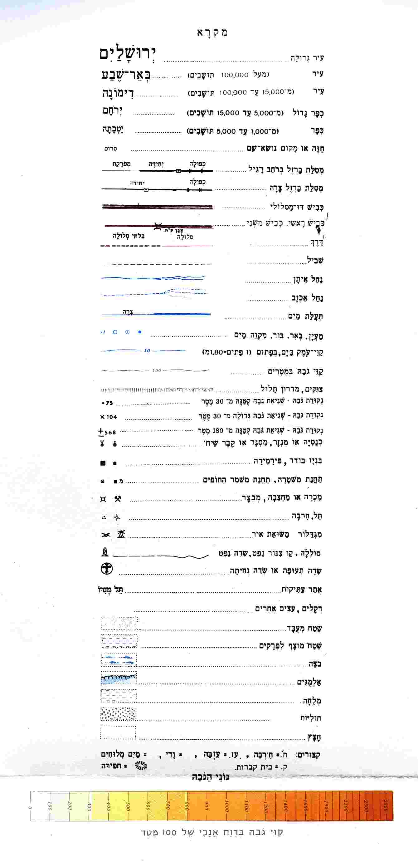 Legend of a topographical map (Israel)